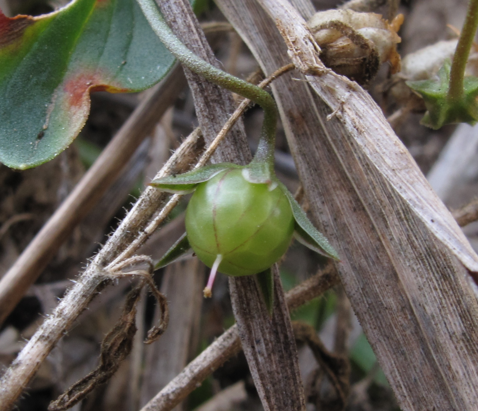 Fruit of scarlet pimpernel (Anagallis arvensis) on the field near Čičovický kamýk natural monument, Prague-West District, Czech Republic.